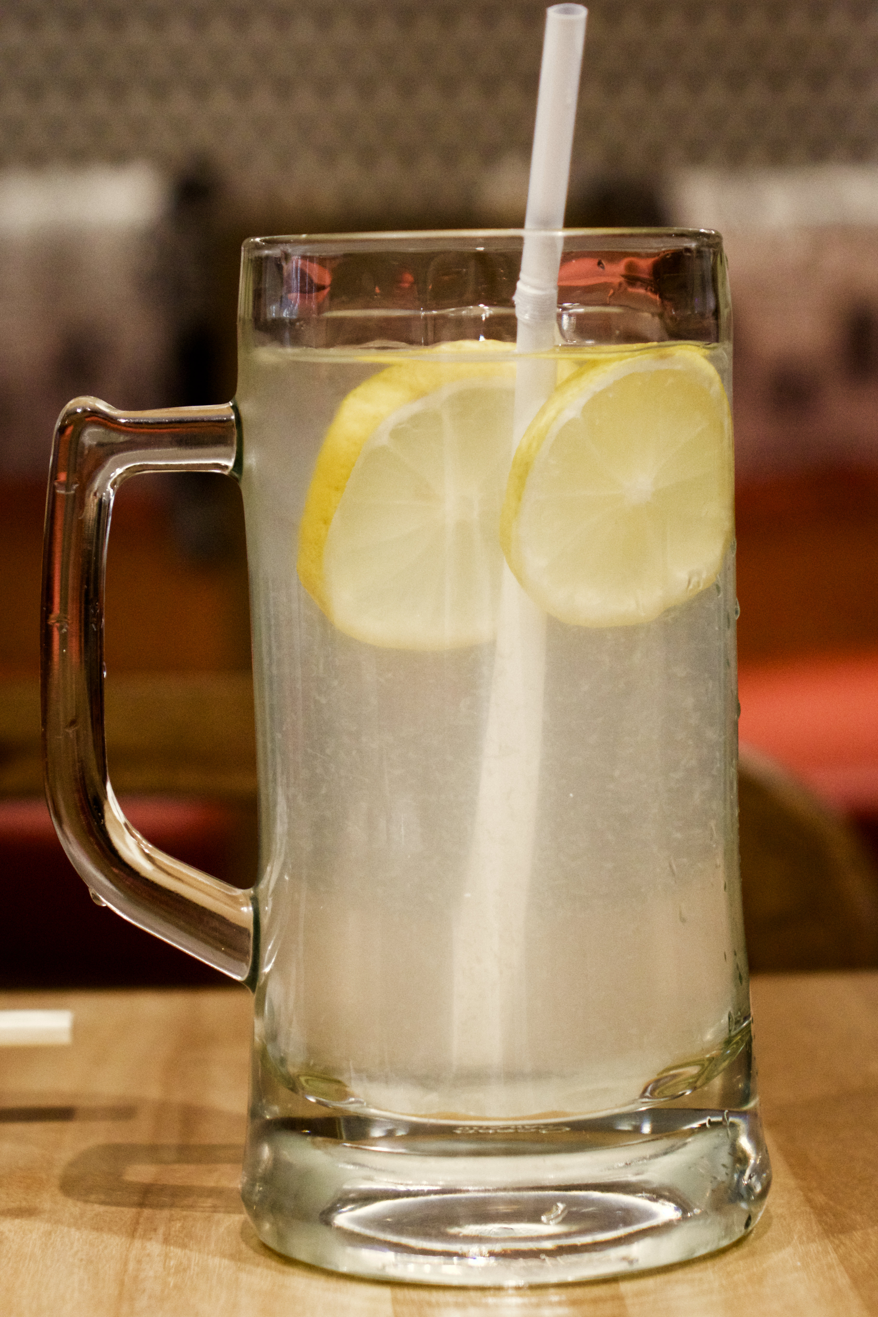 Mug of lemonade